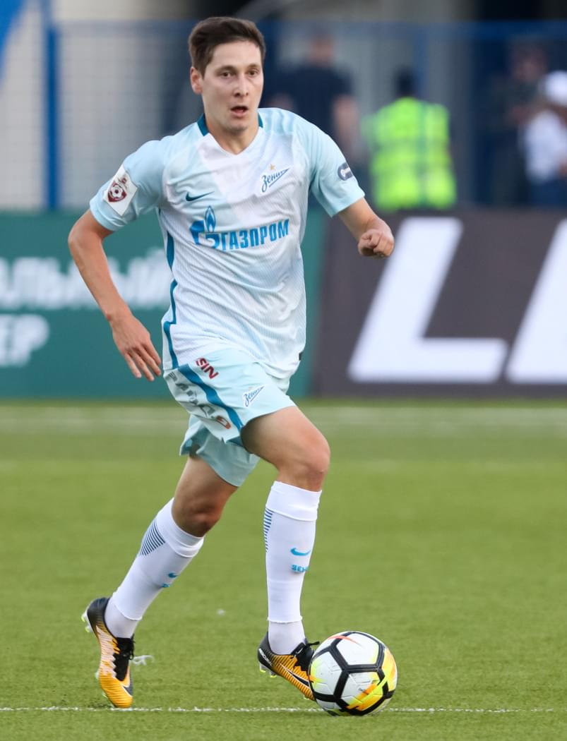 16.07.2017. Россия, Хабаровск, стадион им. Ленина. РОСГОССТРАХ-Чемпионат России 2017/18, 1-й тур, «СКА-Хабаровск» — «Зенит».